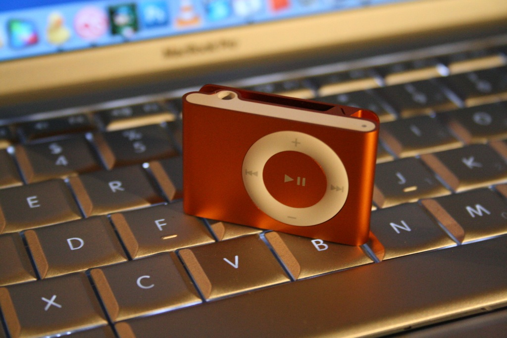 Orange second generation iPod shuffle.